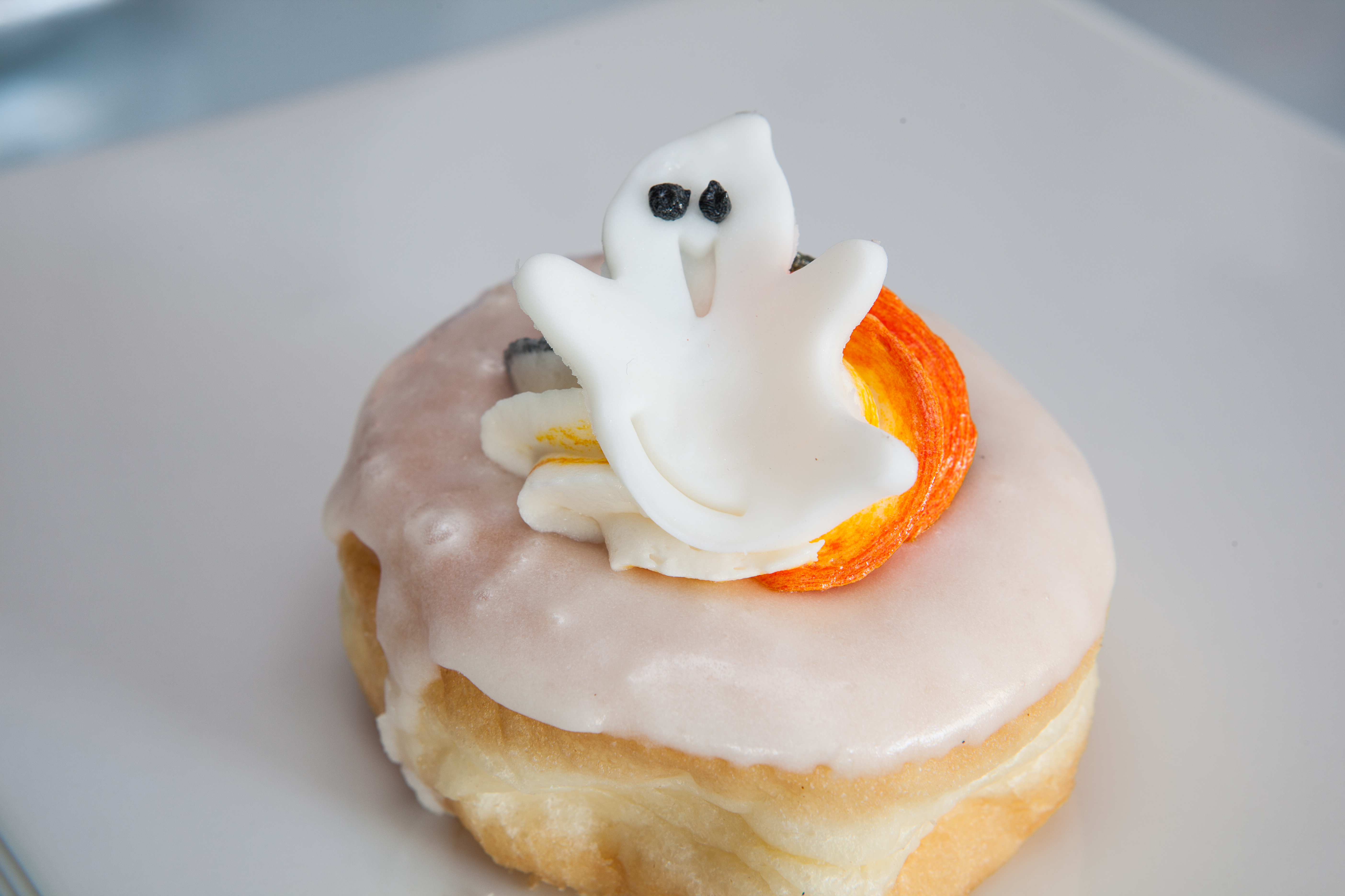 Wedding-Halloween Doughnuts 2014-362